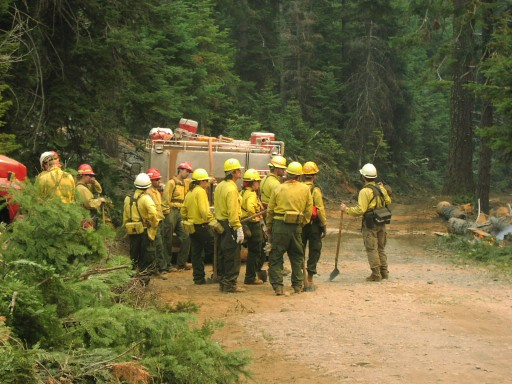 Fire crew preparing for burn-out operation in the Booth Fire area of the B&B Complex Fires in the Cascade Mountains of Oregon, 28 August 2003